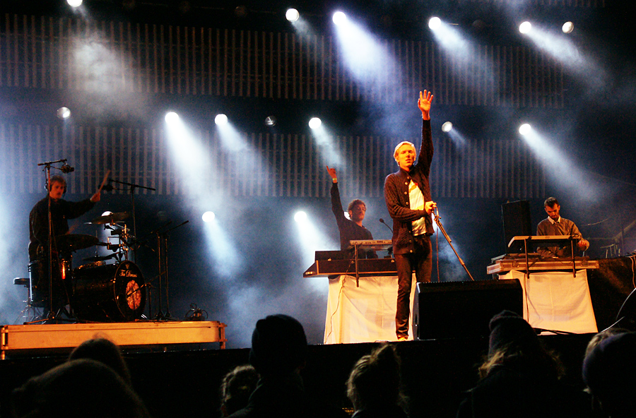 When Saints Go Machine, Danish electropop group - The City Hall Square, Copenhagen, 1st October 2009